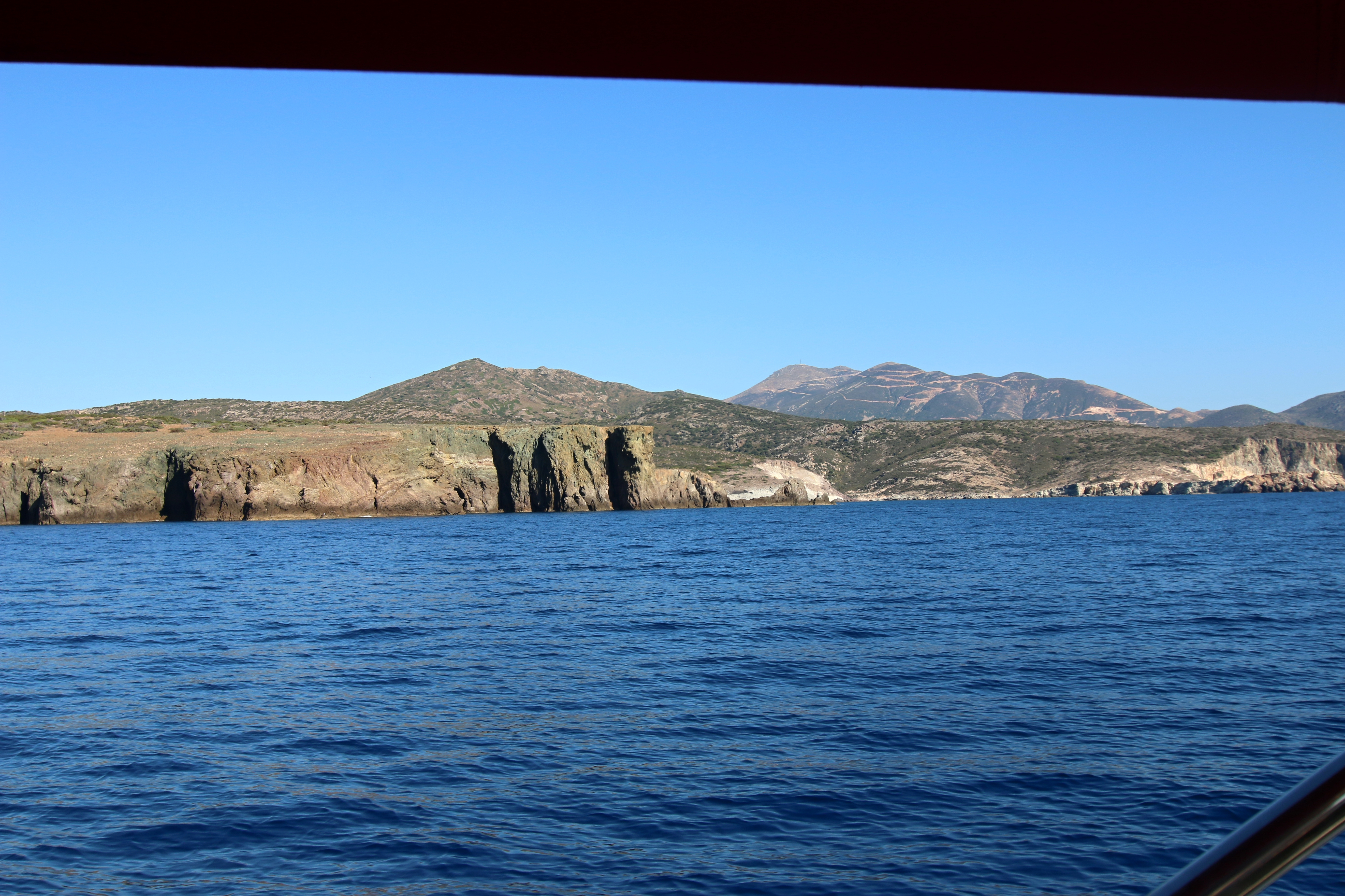 South part of the west coast of Milos.